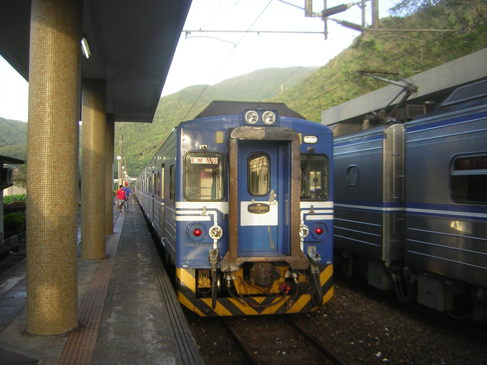 EMU502 leaving Dasi Station of Taiwan Railway Administration.